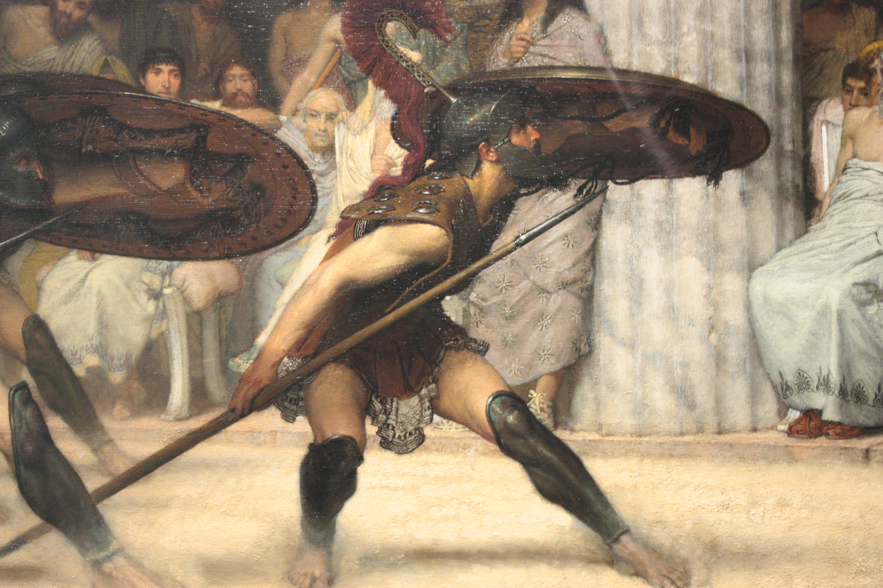 The Pyrrhic Dance (detail) by Lawrence Talma-Tadema